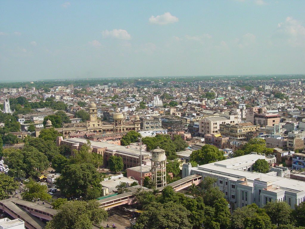 Kanpur Downtown